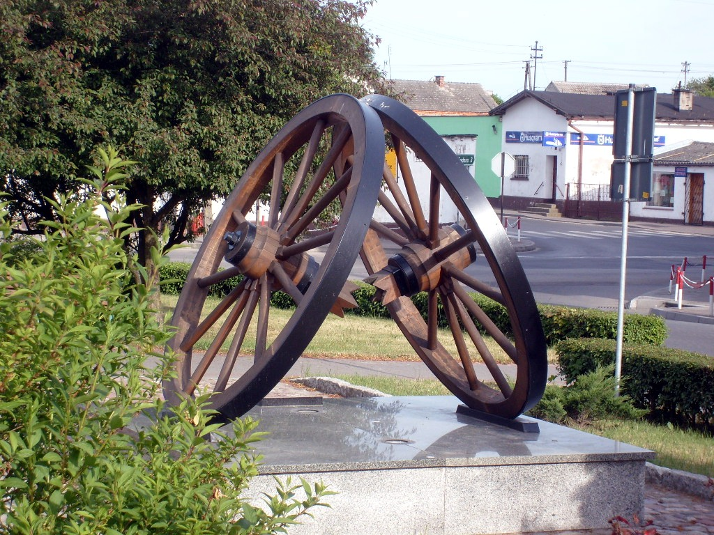 The symbol of Osie, Poland